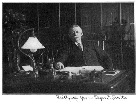 Scan of a picture of American scientist Edgar Fahs Smith (who died in 1928)